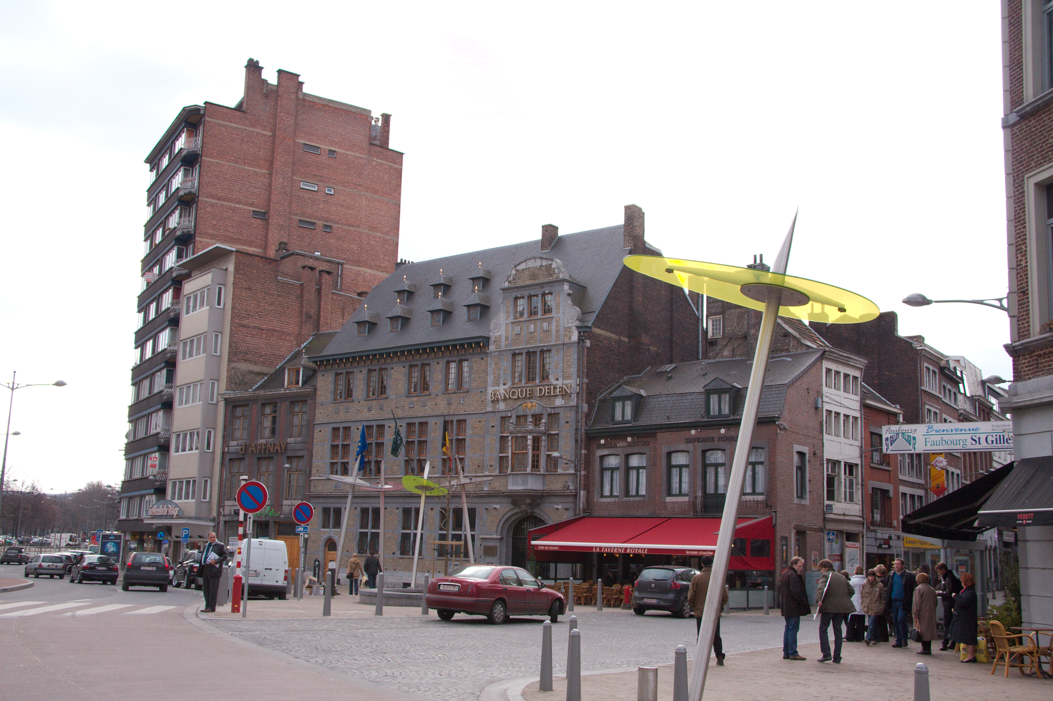 Bank Delen in Liège (Belgium).